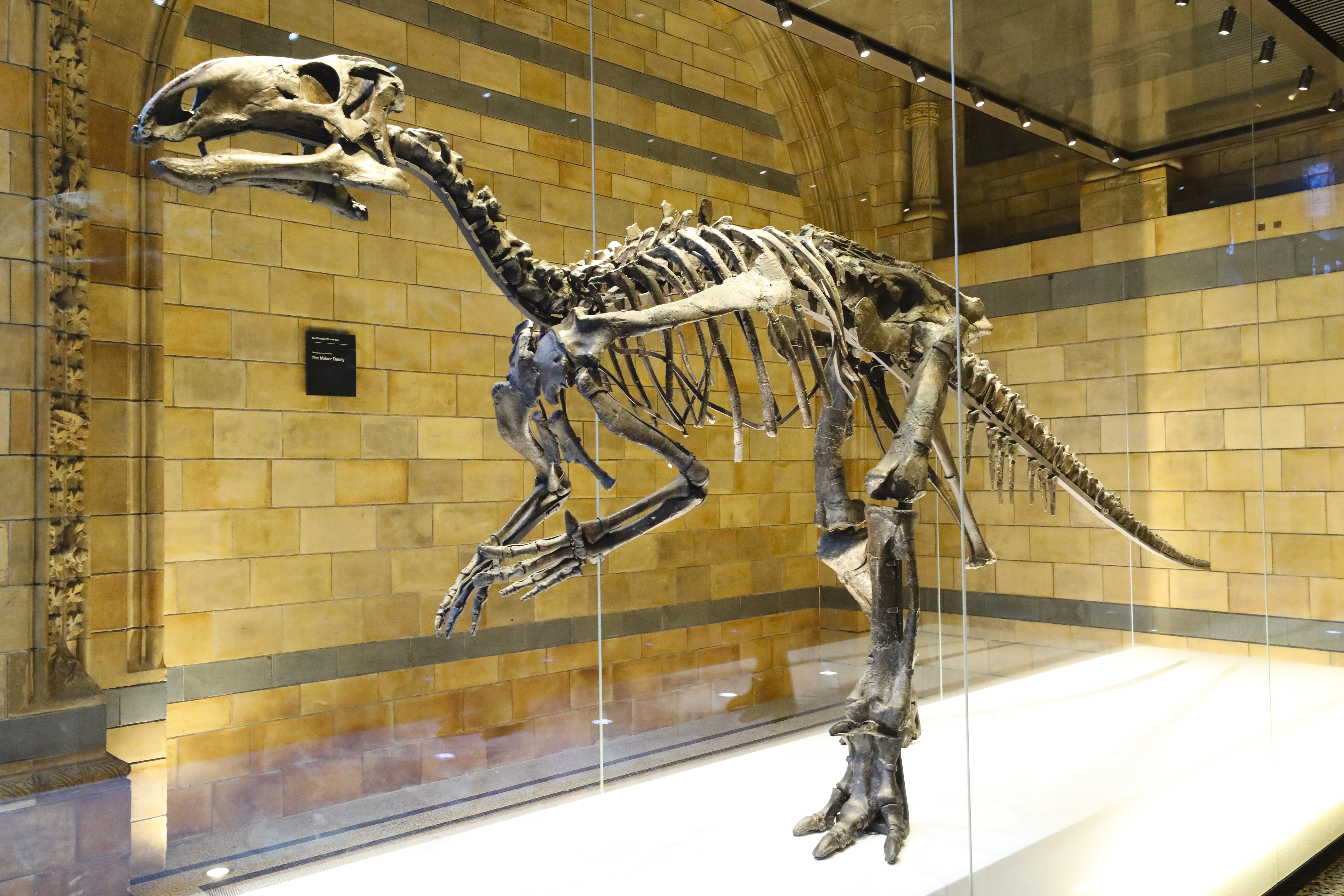 自然歷史博物館, 自然史博物館, 阿爾弗雷德沃特豪斯, 倫敦, 大倫敦行政區, 英國首都, 英格蘭, 英倫, 大不列顛及北愛爾蘭聯合王國, 聯合王國, 不列顛, 英國, Natural History Museum, British Museum, Alfred Waterhouse, London, England, Britain, UK, United Kingdom, United Kingdom of Great Britain and Nort (39412639740).jpg